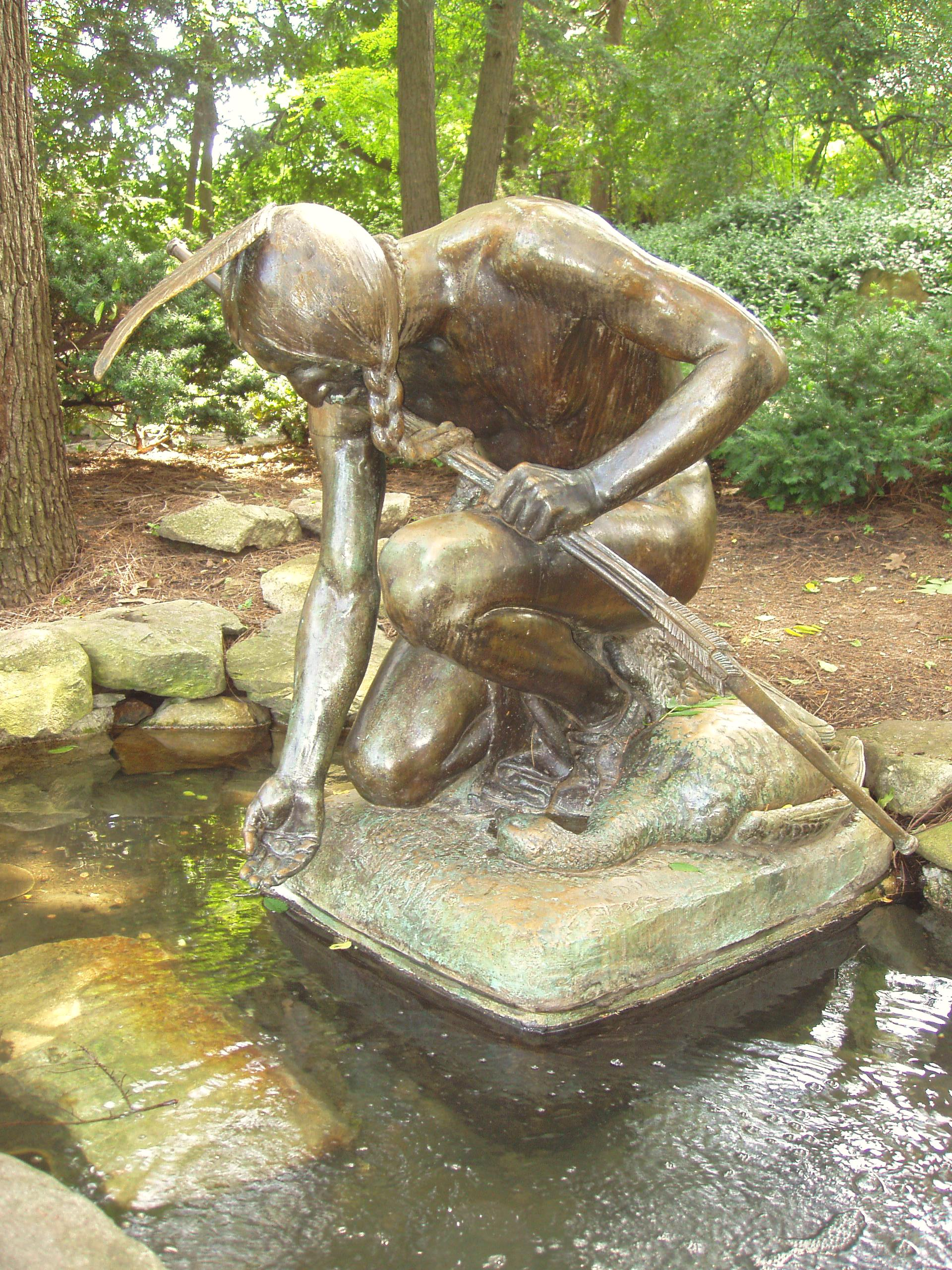 Menotomy Indian Hunter, by sculptor Cyrus E. Dallin. This 1911 sculpture is located in Robbins Park, between Robbins Library and Town Hall, in Arlington, Massachusetts.